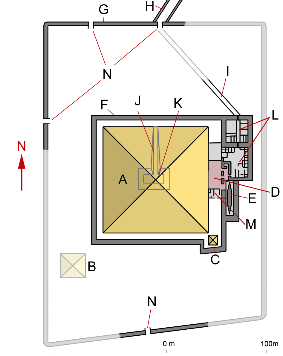 Ground plan of the pyramid complex of the Pyramid of Djedefra (Radjedef)